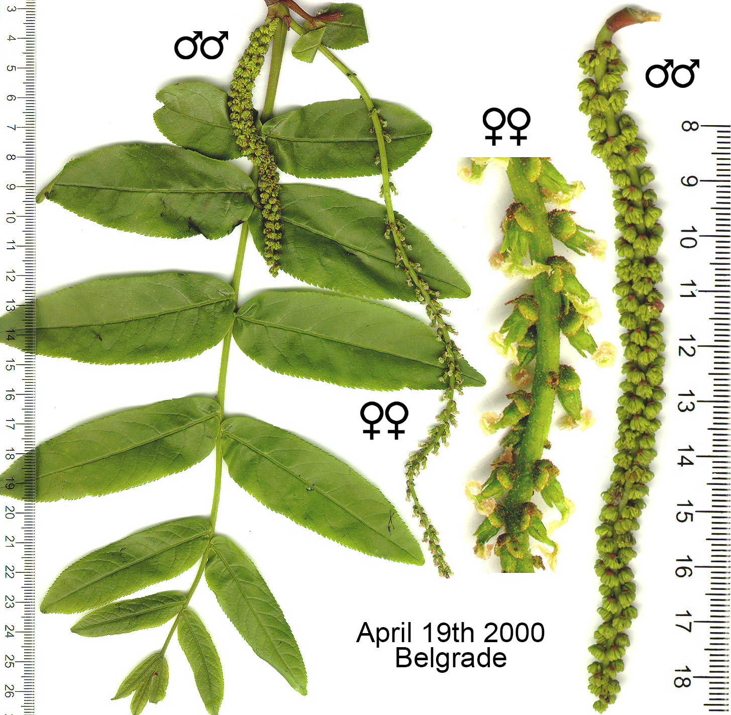 Pterocarya fraxinifolia, female and male catkins